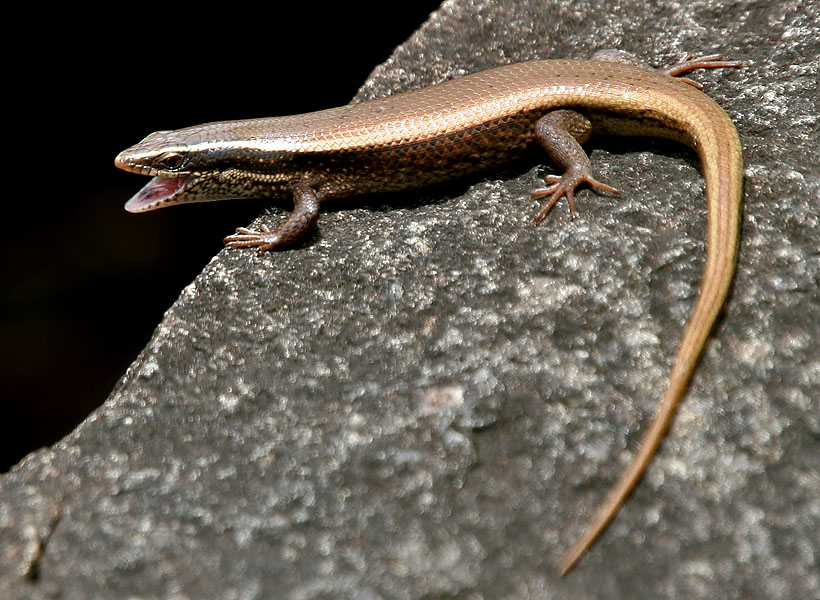 Bronze Mabuya or Bronze Grass Skink Eutropis macularia at Pocharam lake, Andhra Pradesh, India.